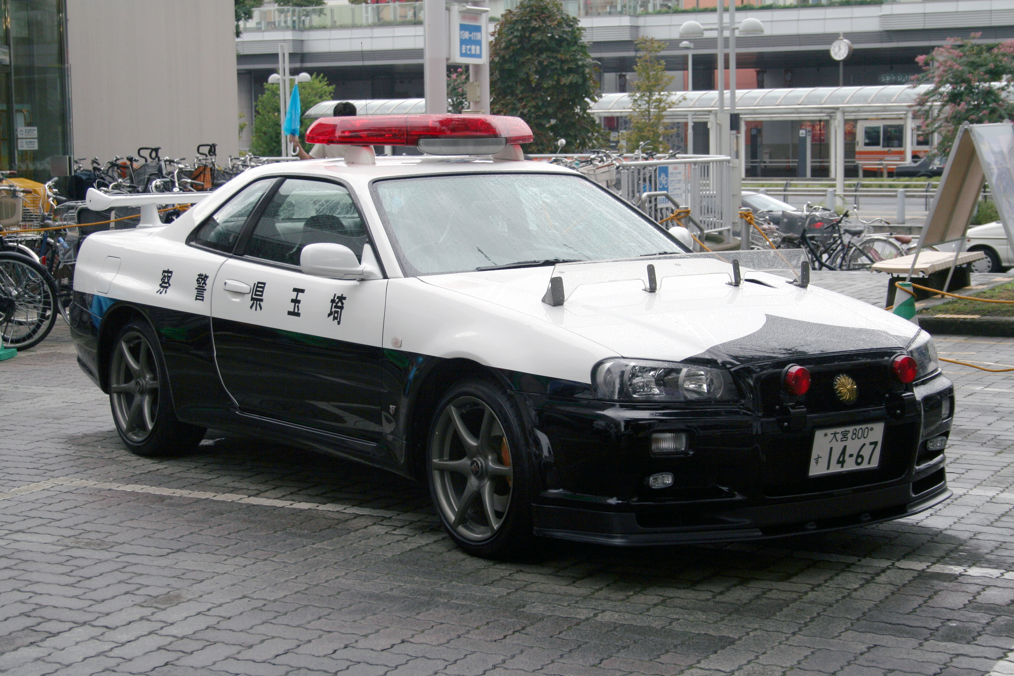 Japanese NISSAN SkylineR34 GTR police car in Saitama prefecture.